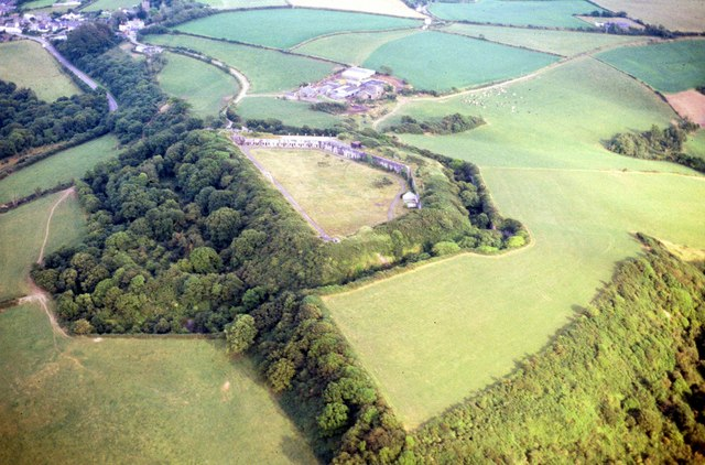 Aerial View of Scraesdon Fort and Antony This picture clearly shows the outline of Scraesdon Fort with its defensive moat filled with mature trees. The village of Antony is in the picture as is Scraesdon Farm and all roads contained within the 1km square map image.